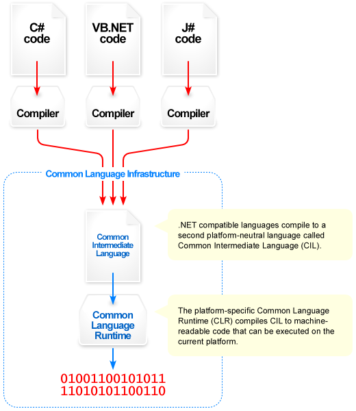 Visual overview of the Common CLR Language Infrastructure, and how the components relate to each other.